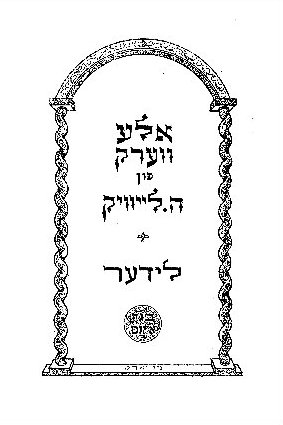 Cover of the Edition 1940